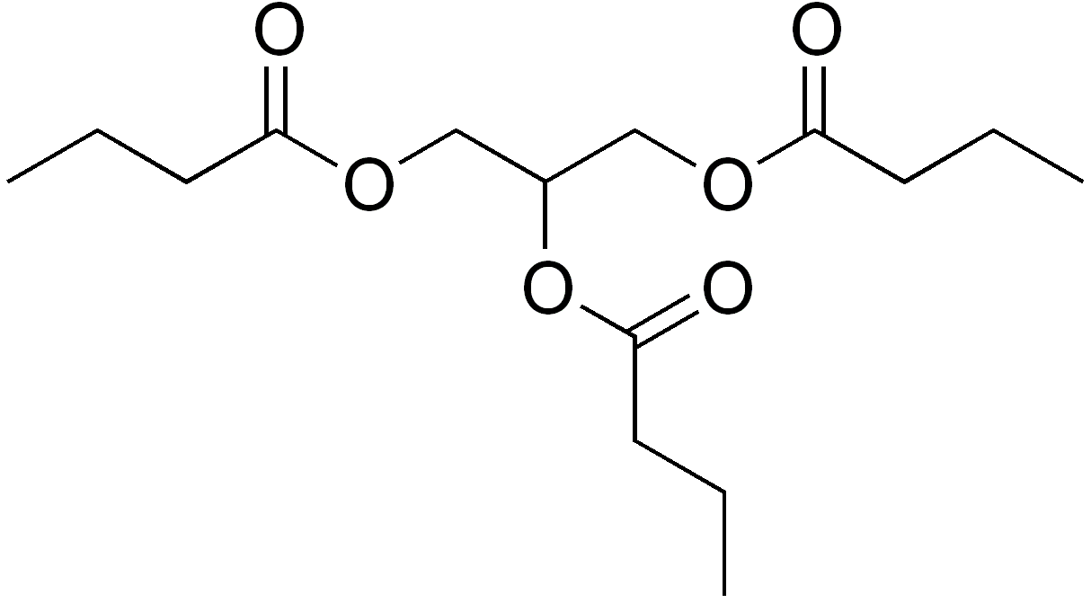 chemical structure of tributyrin (butyrin)